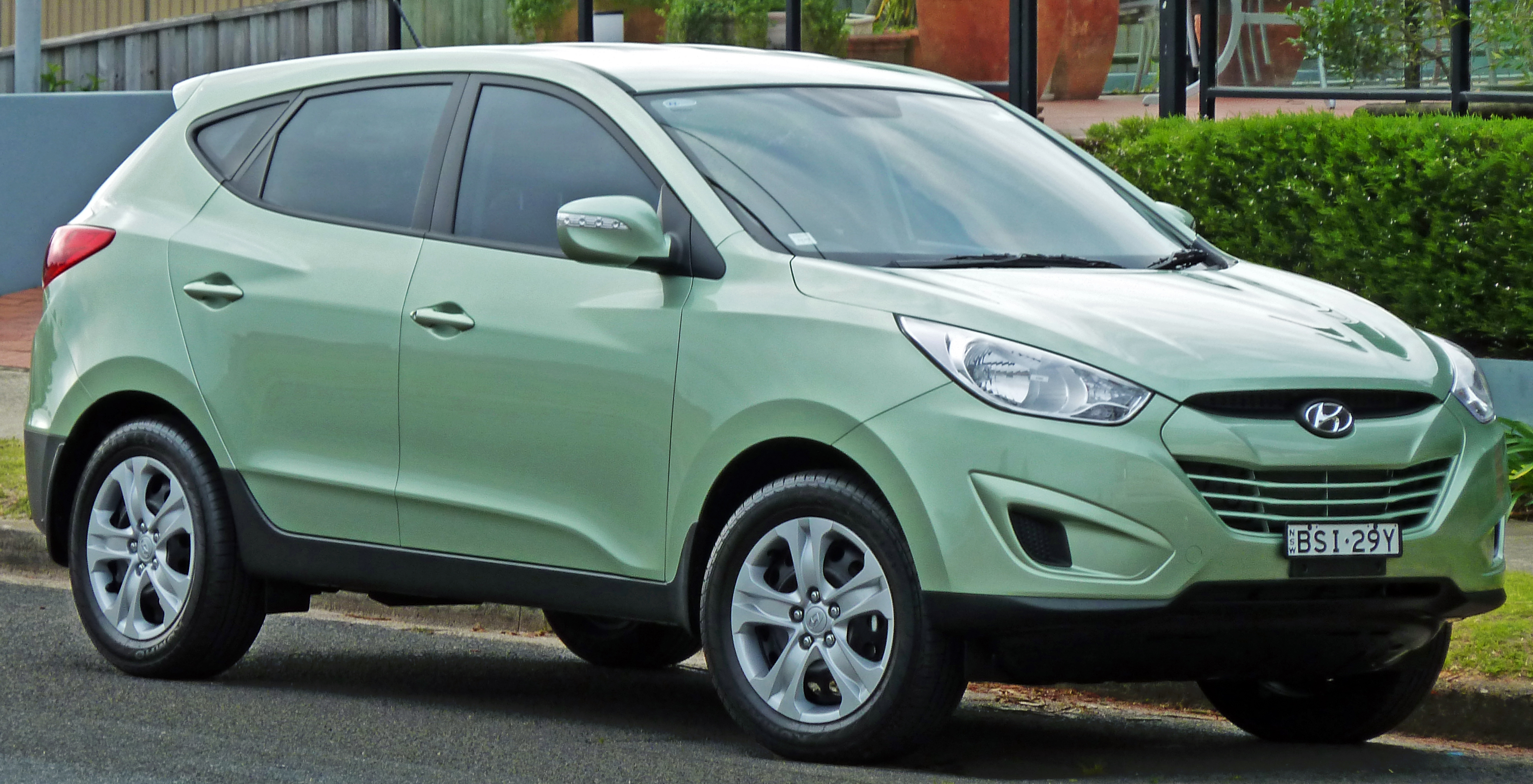 2010 Hyundai ix35 (LM) Active wagon. Photographed in Sans Souci, New South Wales, Australia.